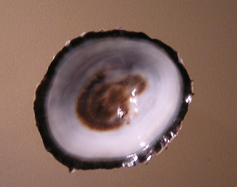 Lottia limatula (Carpenter, 1864); a true limpet from the family Lottiidae; California